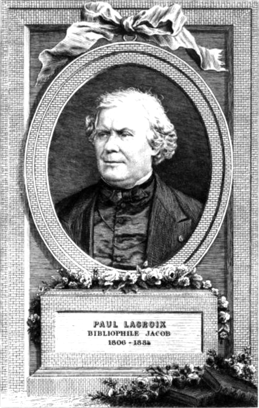 Portrait of Bibliophile Jacob (1806-1884)